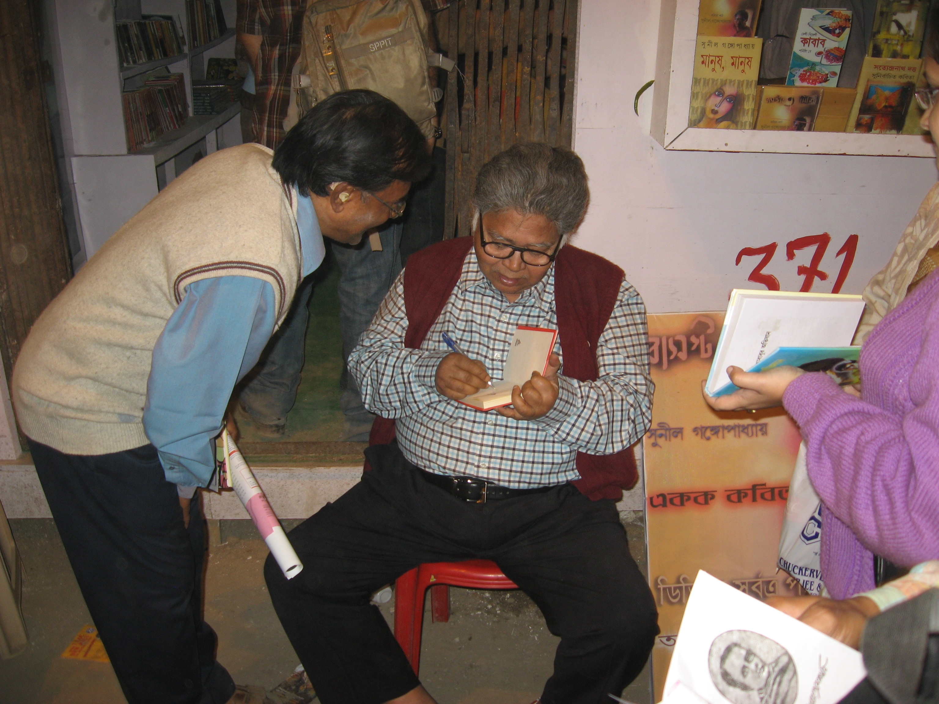 Sunil Gangopadhyay giving autographs to his fans in Kolkata Book Fair 2010 at the time when power cut going on.